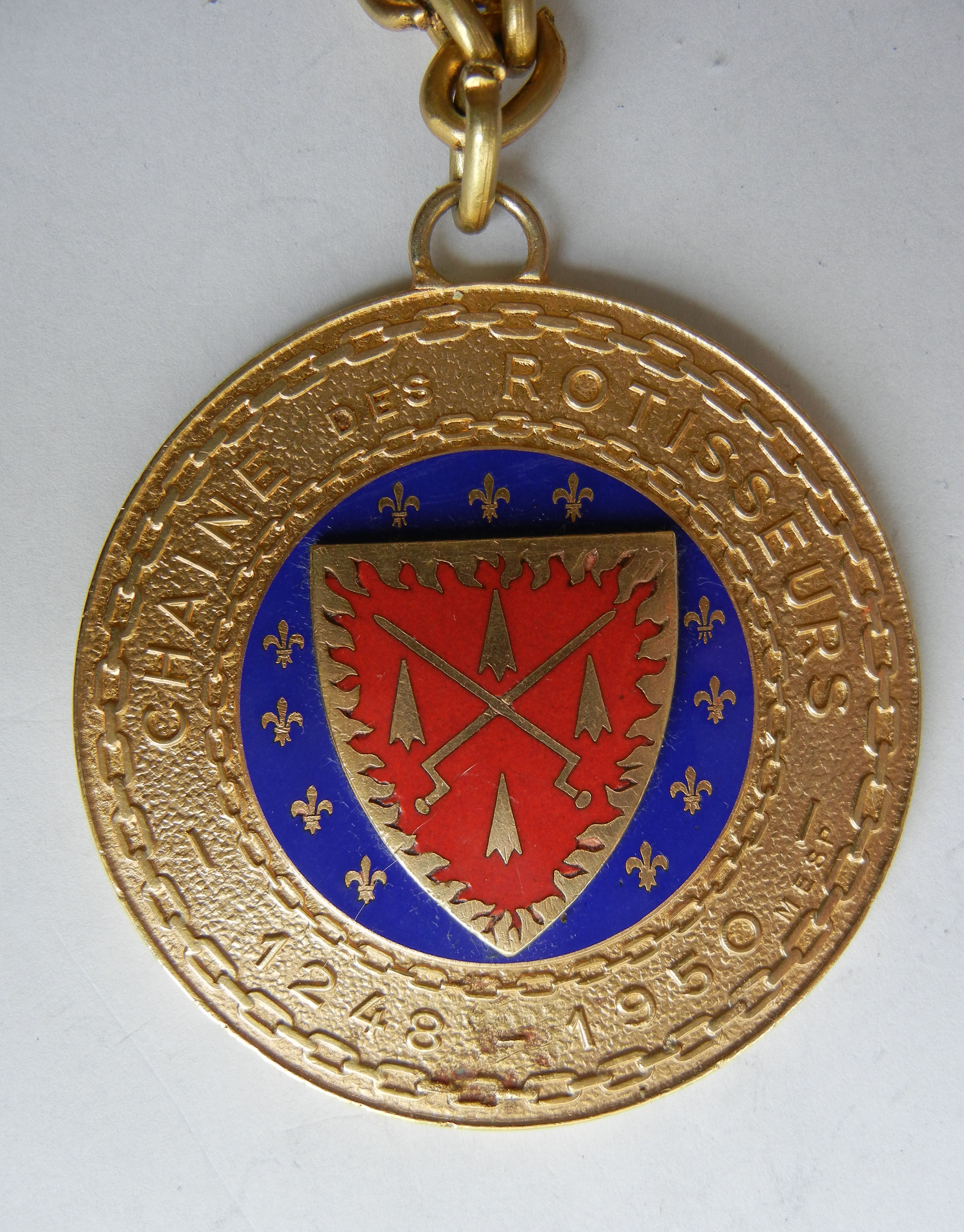 Confrérie de la chaîne des rôtisseurs